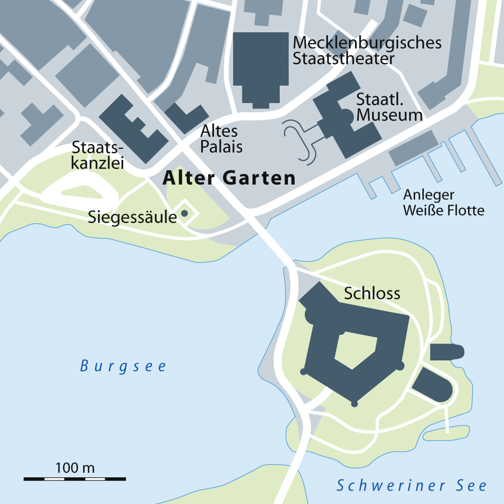 Map of the Alter Garten in Schwerin, Mecklenburg-Vorpommern, Germany